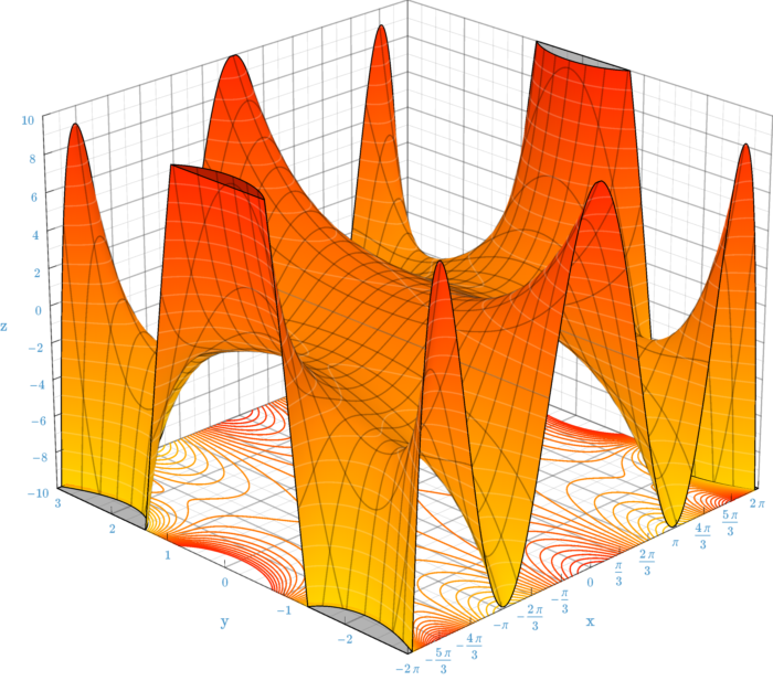 Graph of z = Re(1-(x+I*y)^2/2! + (x+I*y)^4/4! - (x+I*y)^6/6! +(x+I*y)^8/8!), selfmade with MuPad